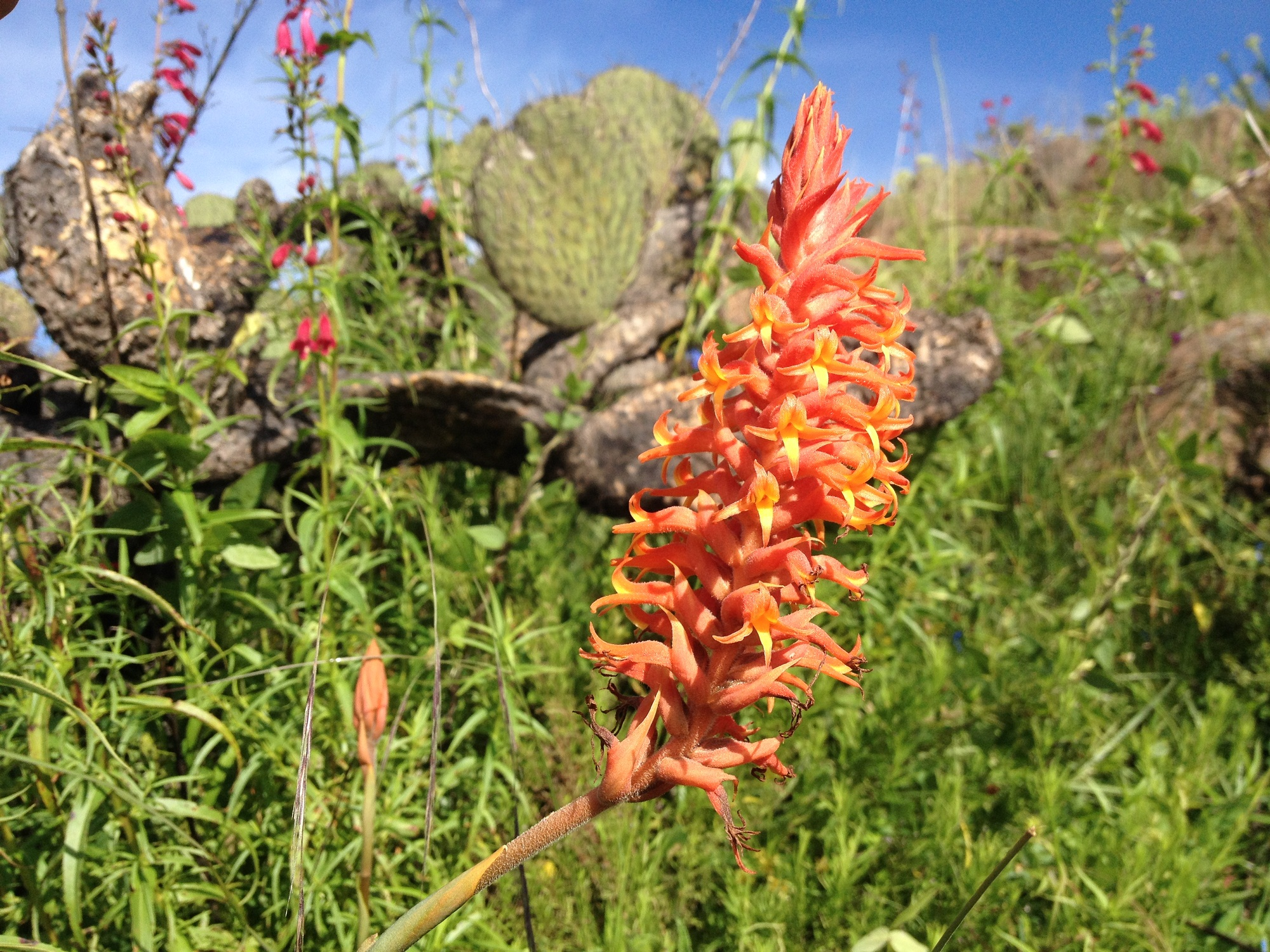 "Scarlet ladies' tresses" is the common name of Dichromanthus cinnabarinus, an orchid native to Texas, Mexico and Guatemala.